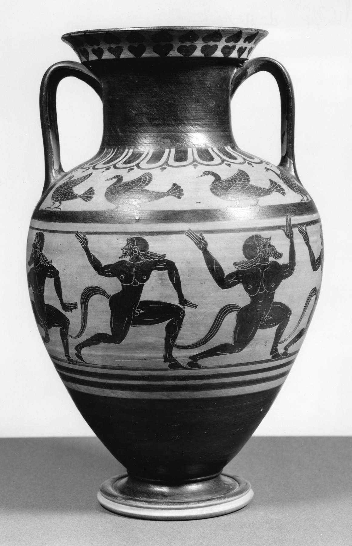 Etruscan artists imitated Greek black-figure ware during the later 6th through the mid-5th centuries BC. On this amphora (two-handled storage vessel), running satyrs gesture wildly beneath a procession of birds. The vivid animation of the figures is typical of Etruscan art, and their dance-like poses and proportions are probably inspired by the wall-paintings of contemporary Etruscan tombs.